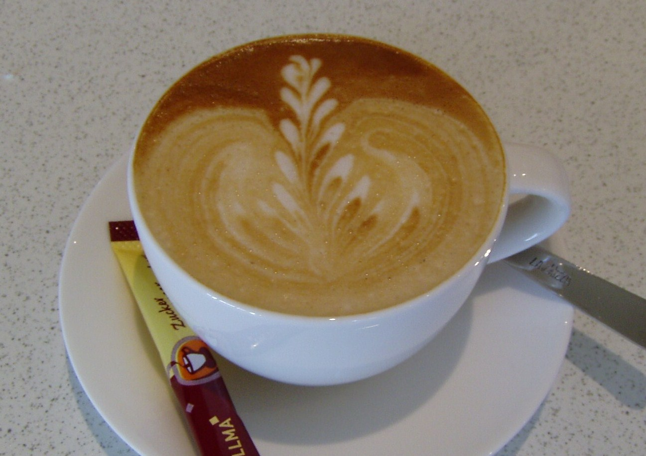 Artwork of a Barista: Cappuccino with decor „Flower“